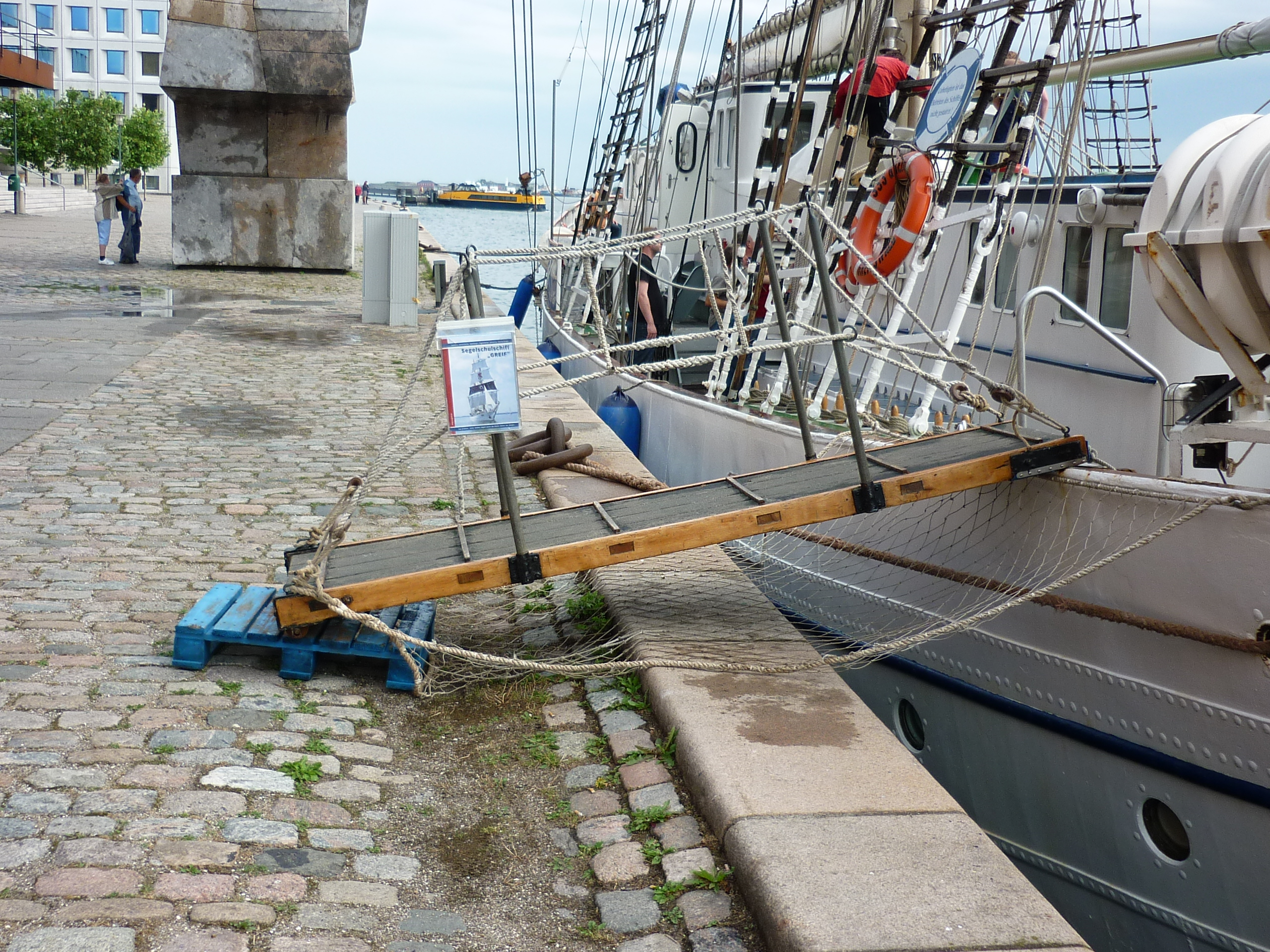 Gangway of the SSS Greif during a stay in Copenhagen